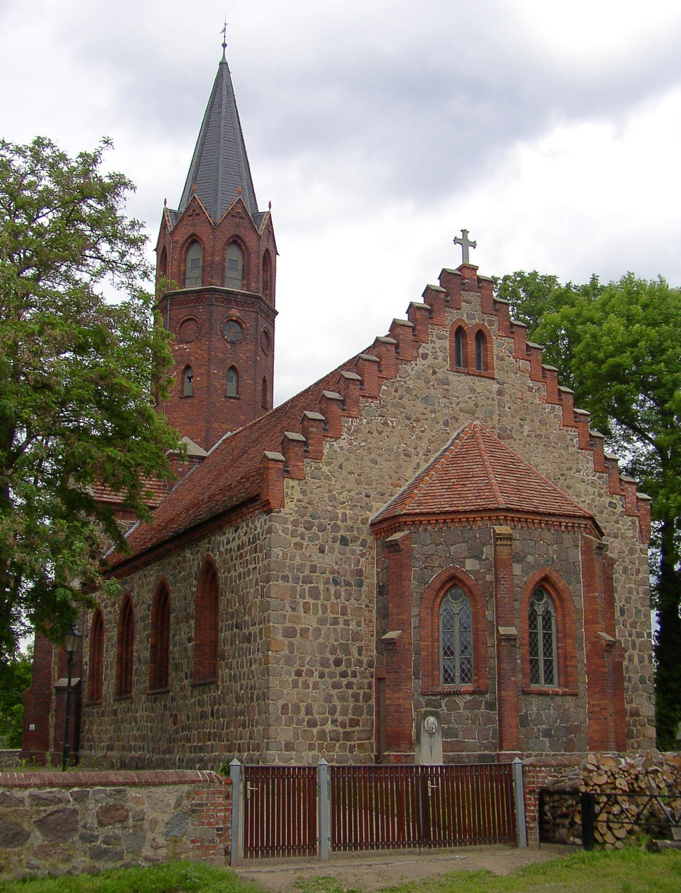 Church in Angermünde-Altkünkendorf in Brandenburg, Germany